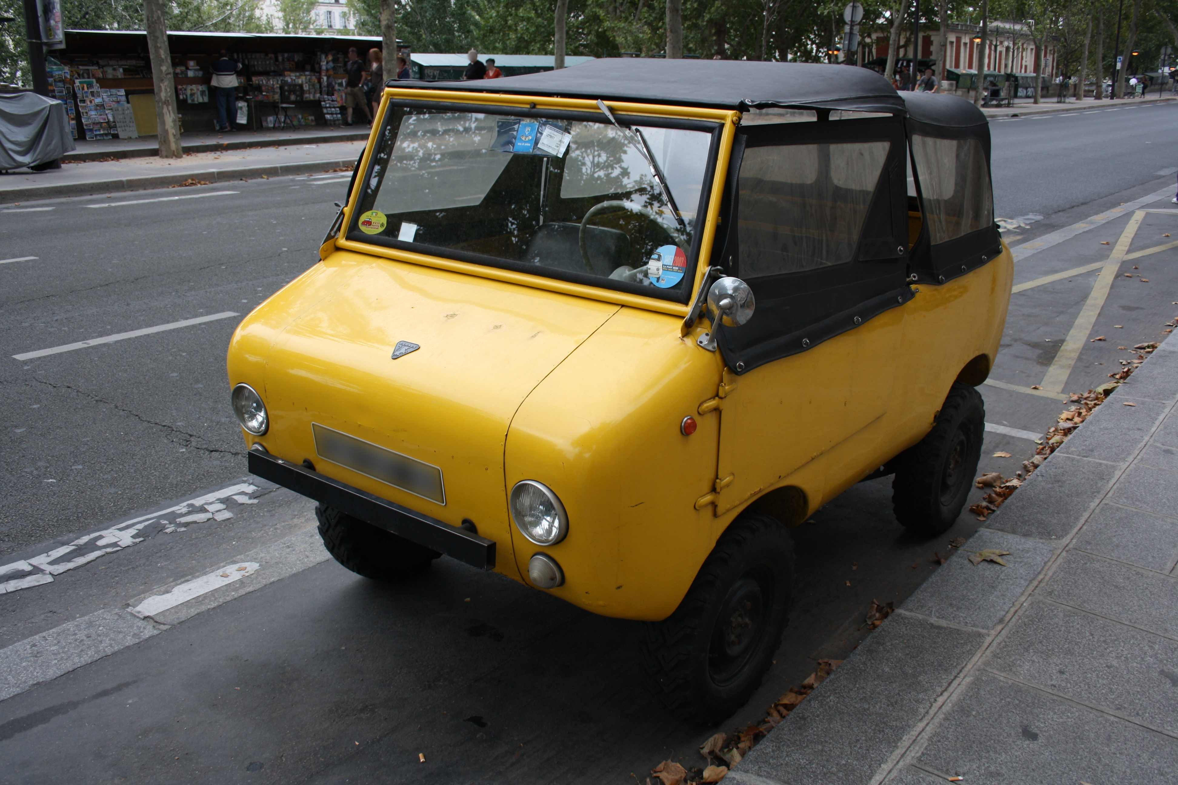 Ferves car in Paris, France